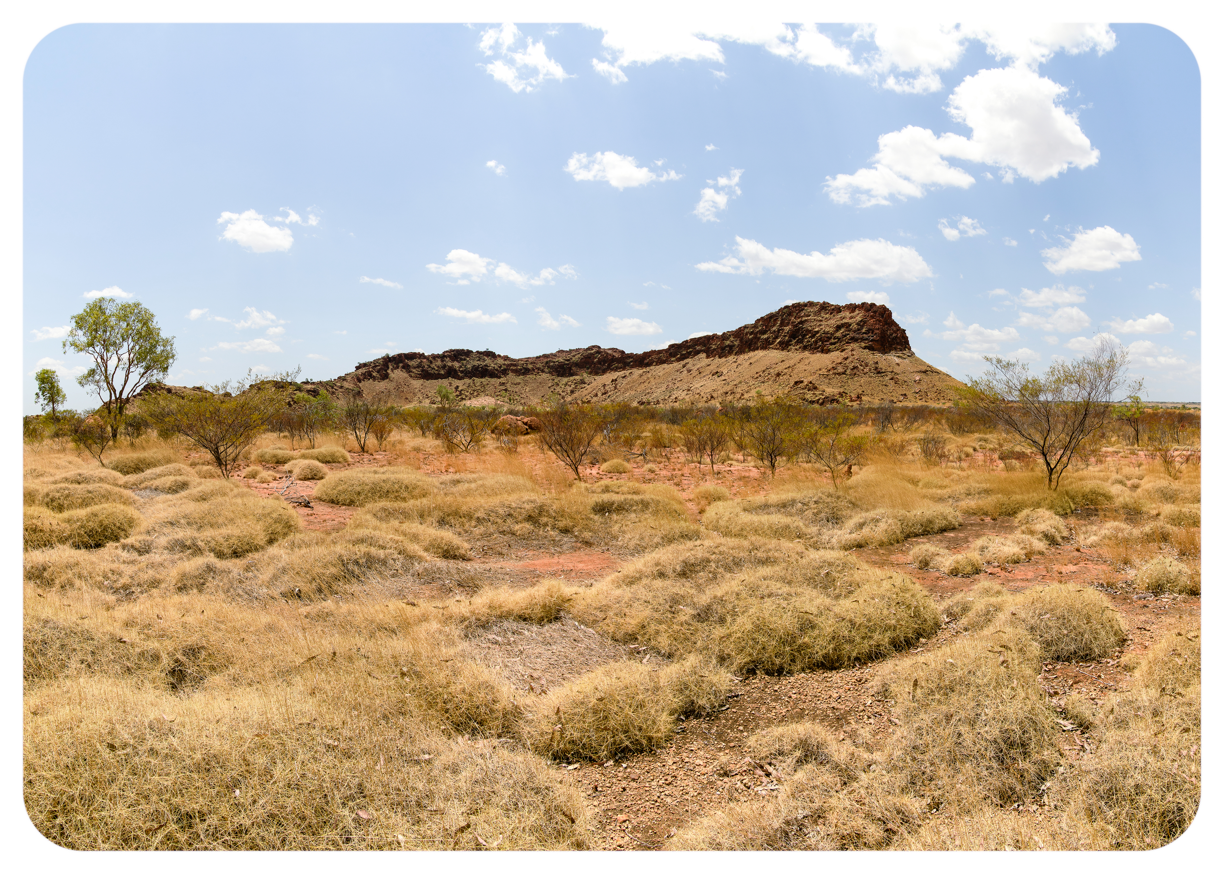 Great Northern Highway, St George Ranges, Western Australia 19th of October, 2015 12:12PM